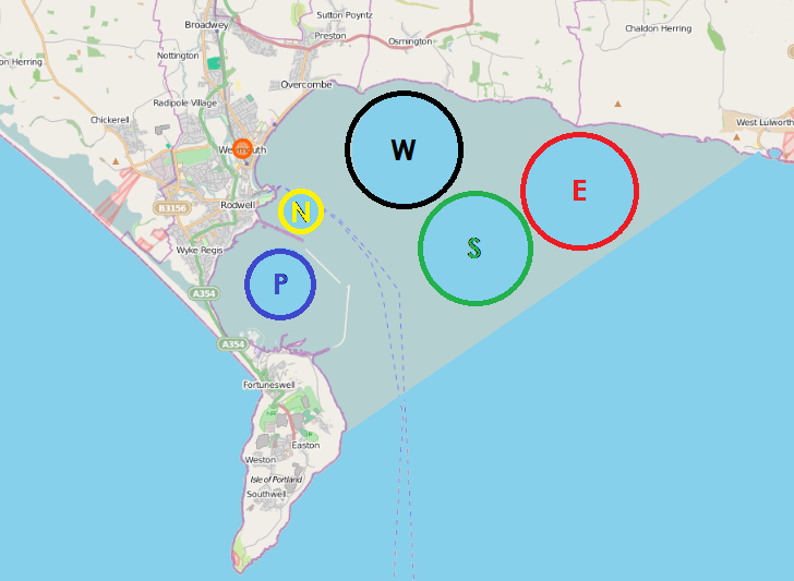 Weymoutho Olympic Course Areas 2012 This map may be incomplete, and may contain errors. Don't rely solely on it for navigation.